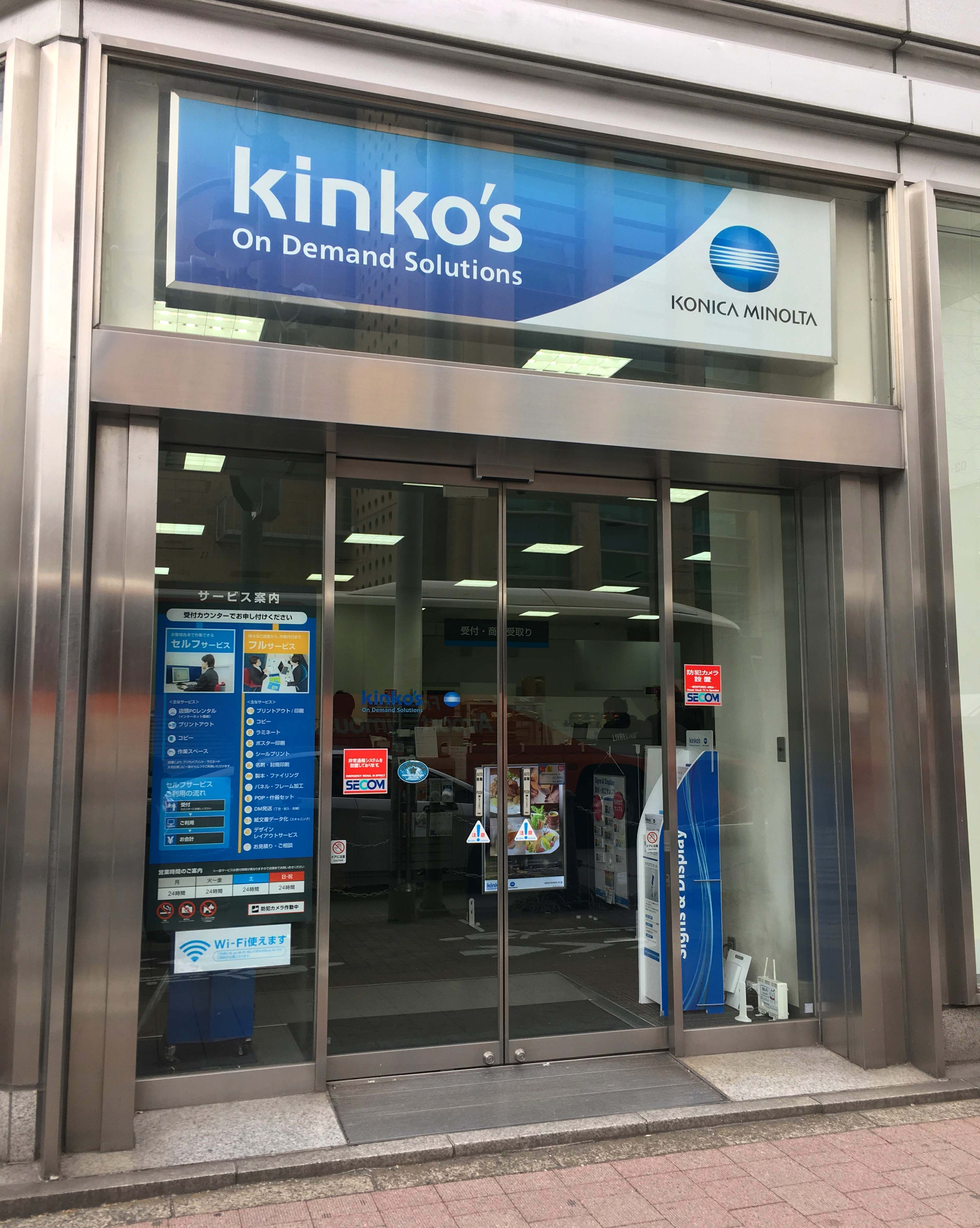 Kinko's (Japanese printing service office) Ikebukuro nishiguchi branch (Tokyo, Japan)